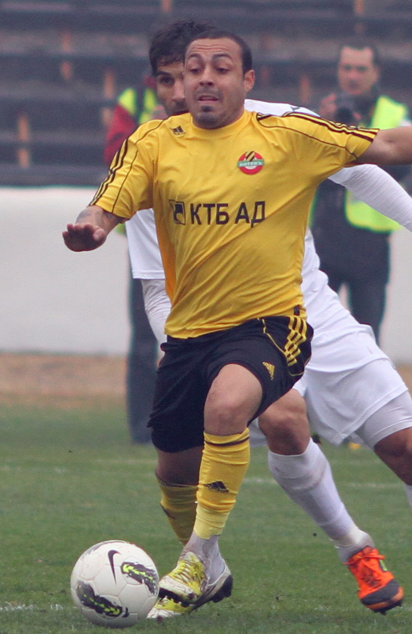 Vander Sacramento Vieira, or simply Vander (born March 2, 1988 in Rio de Janeiro), is a Brazilian attacking midfielder. He currently plays for Botev Plovdiv in the Bulgarian A Professional Football Group.